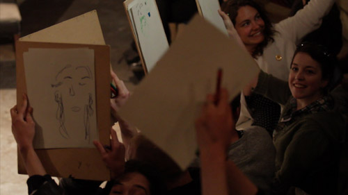 The audience holding up their drawings during Drawing Play by Offstage Theatre.